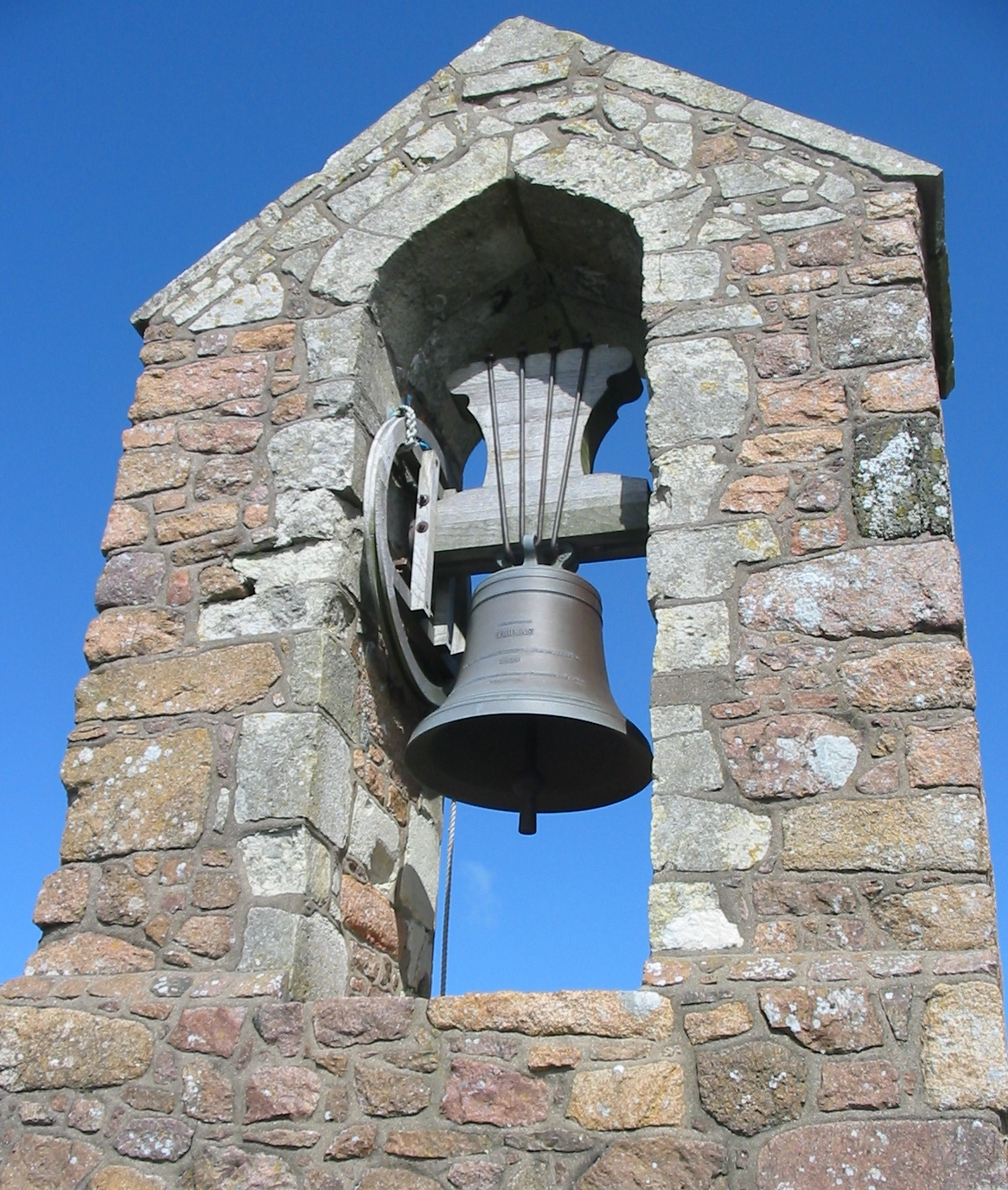 Bell (named Thomas) of castle Mont Orgueil, Gorey in Jersey